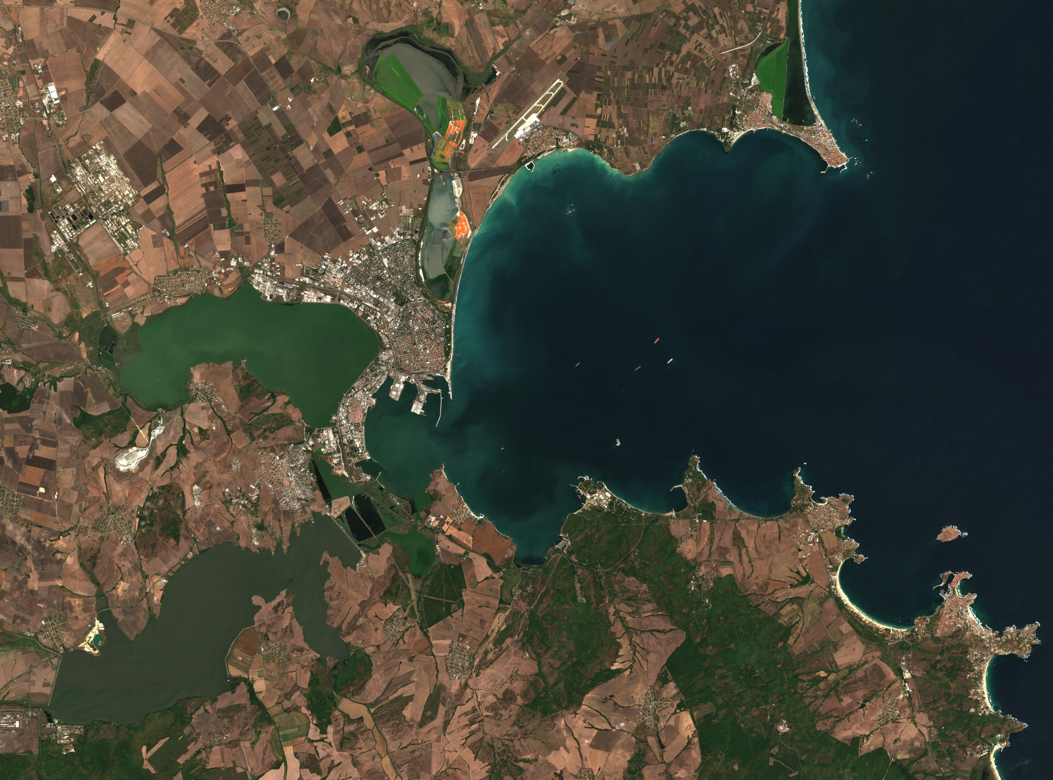 Burgas, Bulgaria as seen by Sentinel-2 satellite, 31 August 2019